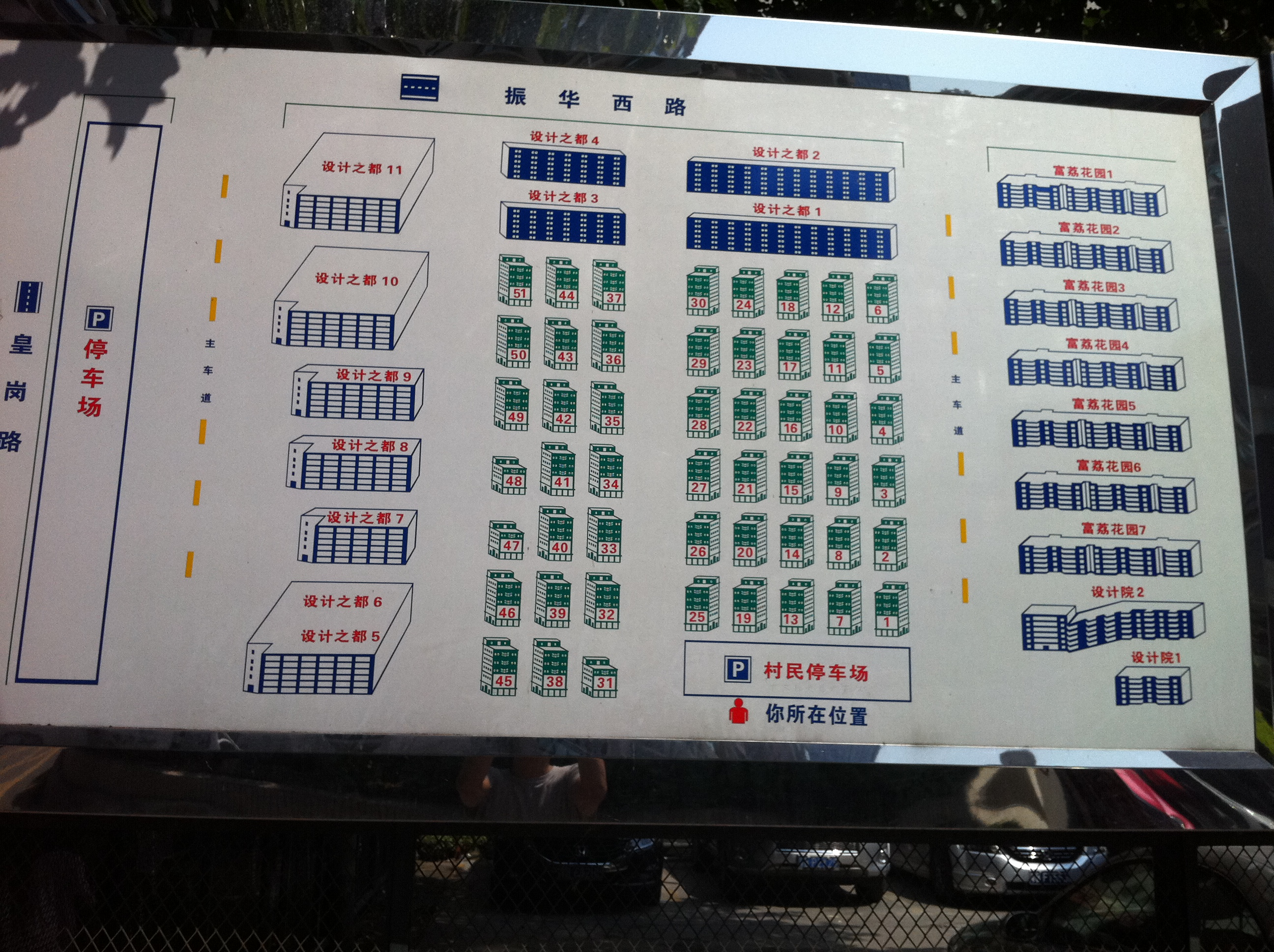 Maps of Tianmian Cun, Shenzhen